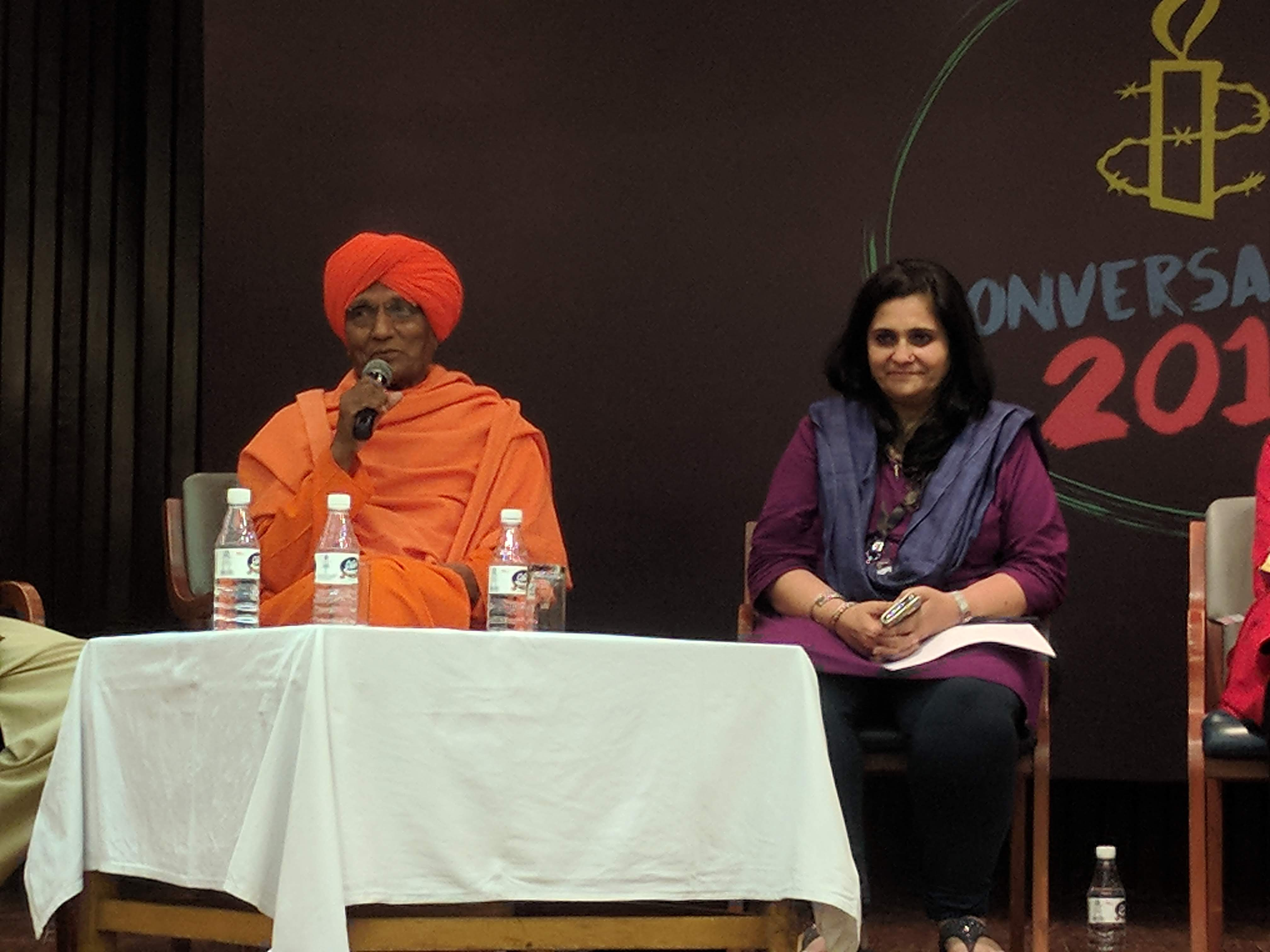 Swami Agnivesh (left) at an Amnesty International event, Conversations 18', in New Delhi. Teesta Setalvad (right) also pictured.